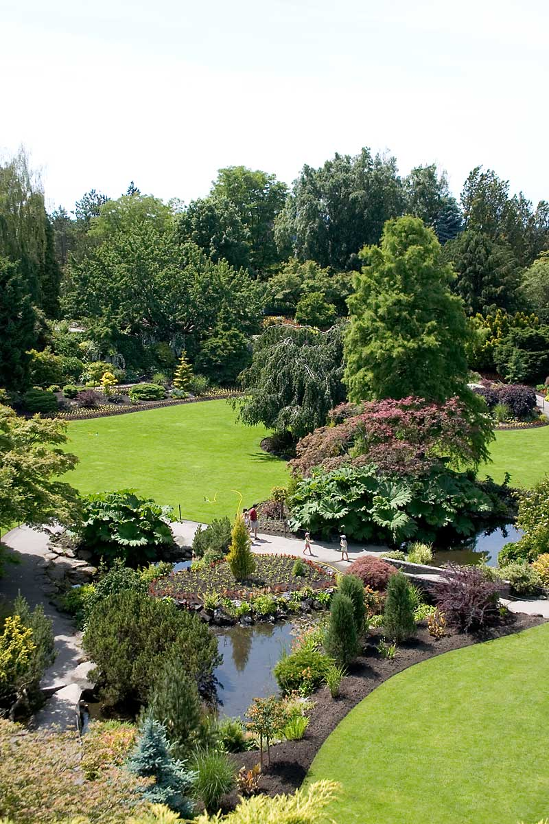 Queen Elizabeth Park in Vancouver, BC, Canada.